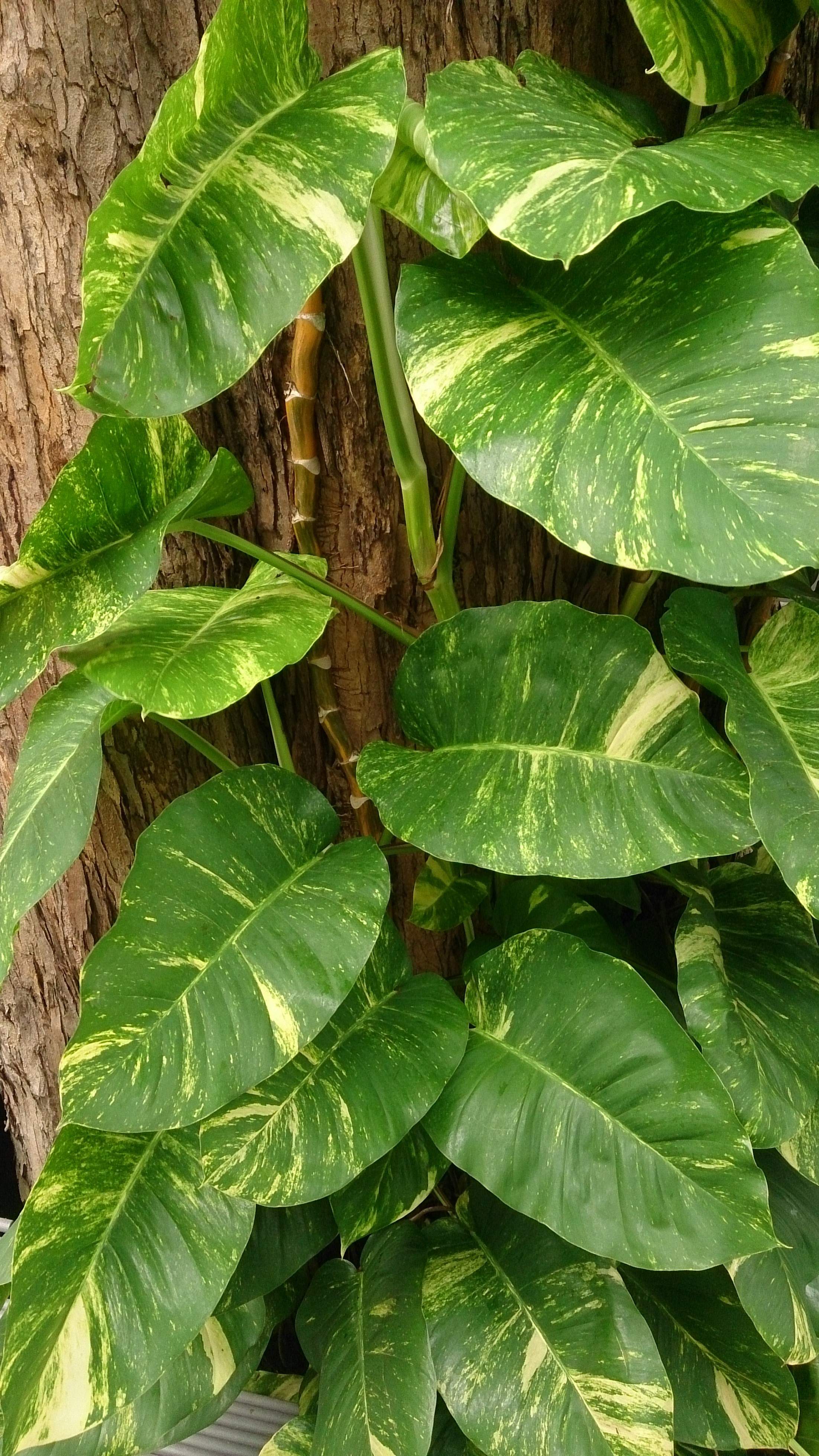 Epipremnum aureum. Common names: Money Plant. Devil's Ivy.